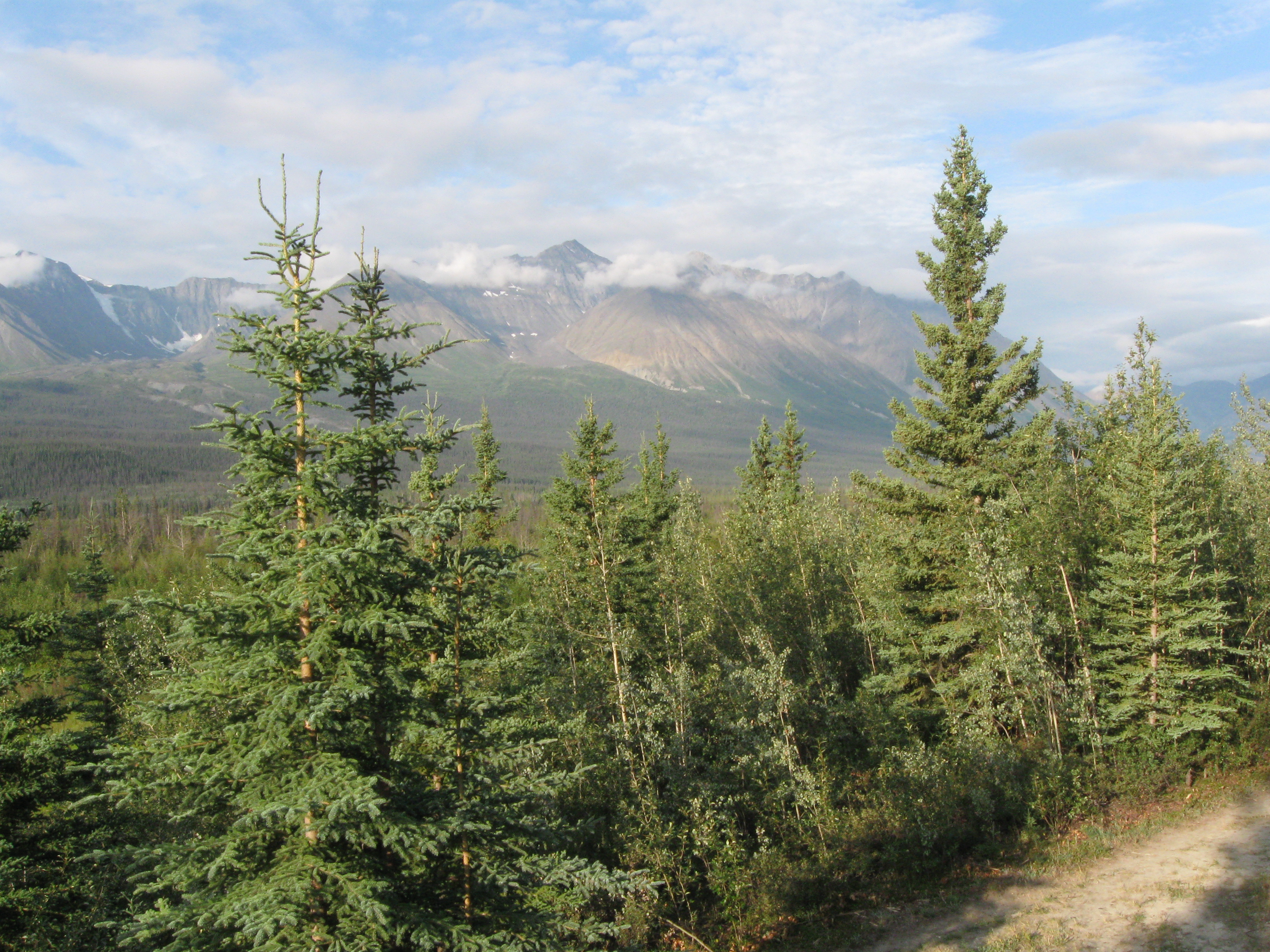 Picea glauca young trees, Haines Junction, Yukon, Canada.